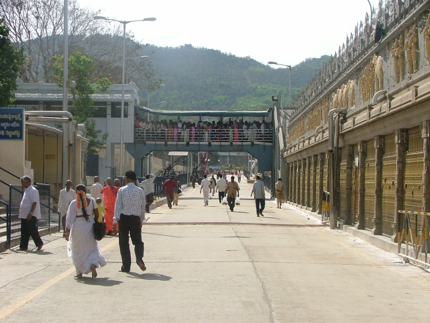 South Mada Street View. The bridge in view connects Vaikuntam Queue Complex to Tirumala Venkateswara Temple